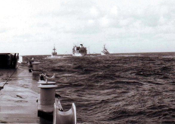 The Royal Navy replenishment tanker RFA Olna (A123) refueling a Leander-class frigate (left) and a Type 21 class frigate (right) en route to the Falklands, in 1982. RFA Olna was assigned to the "Bristol Group" which consited of the destroyers HMS Bristol (D23), HMS Cardiff (D108), the frigates HMS Active (F171), HMS Andromeda (F57), HMS Avenger (F185), HMS Minerva (F45), HMS Penelope (F127), and the Royal Fleet Auxiliaries RFA Olna and RFA Bayleaf (A109).